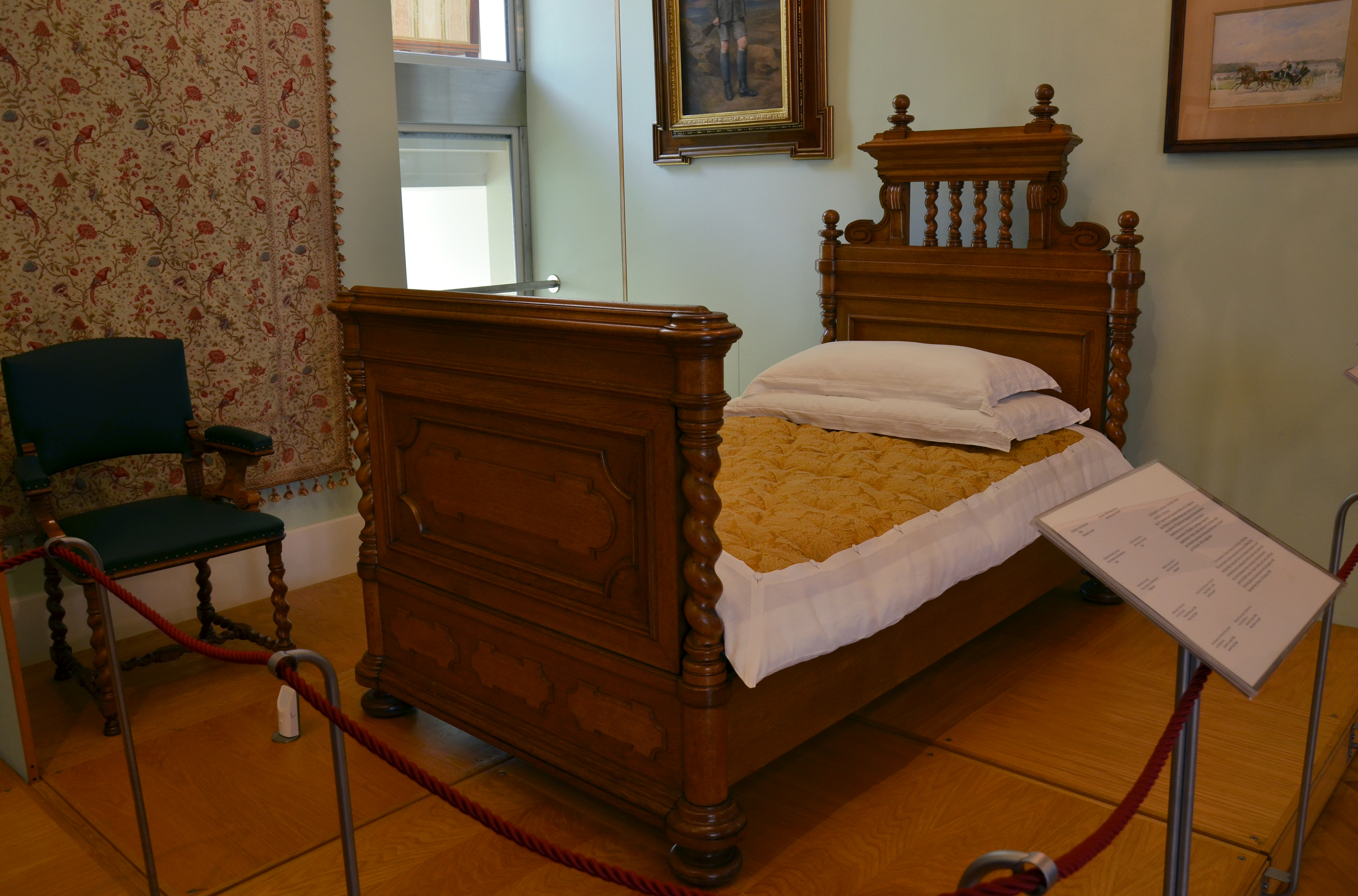 Deathbed of Crown Prince Rudolf, from Mayerling, now in the Imperial Furniture Collection ( Kaiserliches Hofmobiliendepot ) in Vienna.